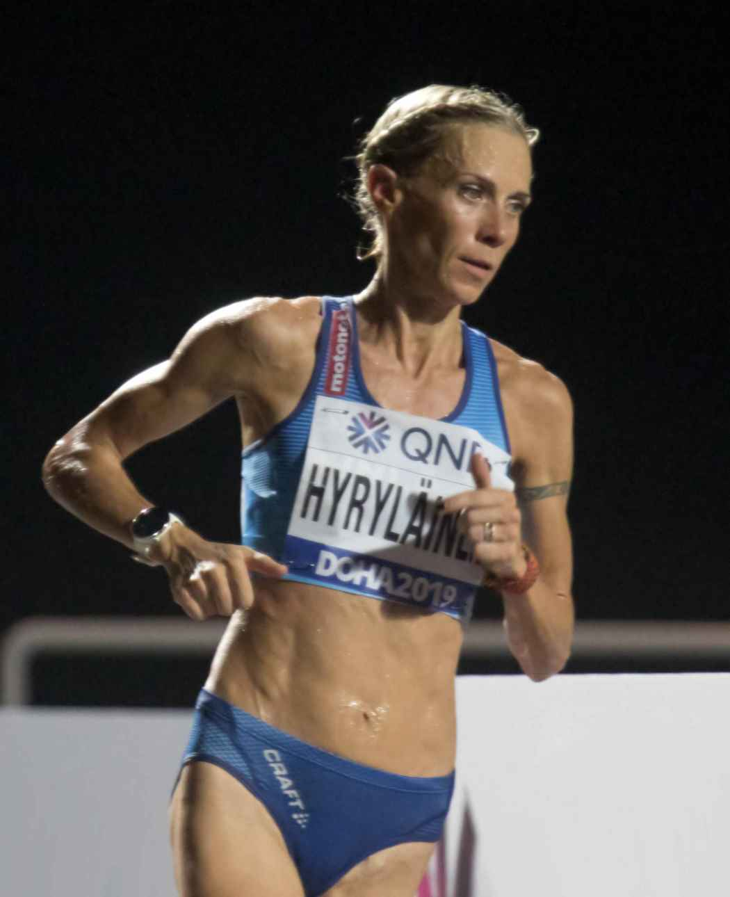 Women's marathon at the 2019 World Athletics Championships in Doha.